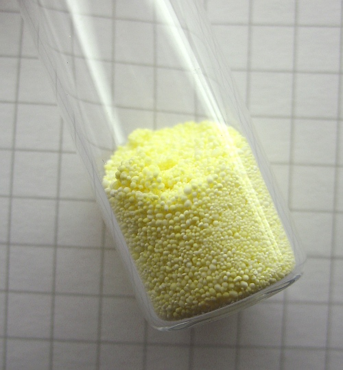 Sodium peroxide general lab reagent, small spheres of around 0.5 mm diameter.